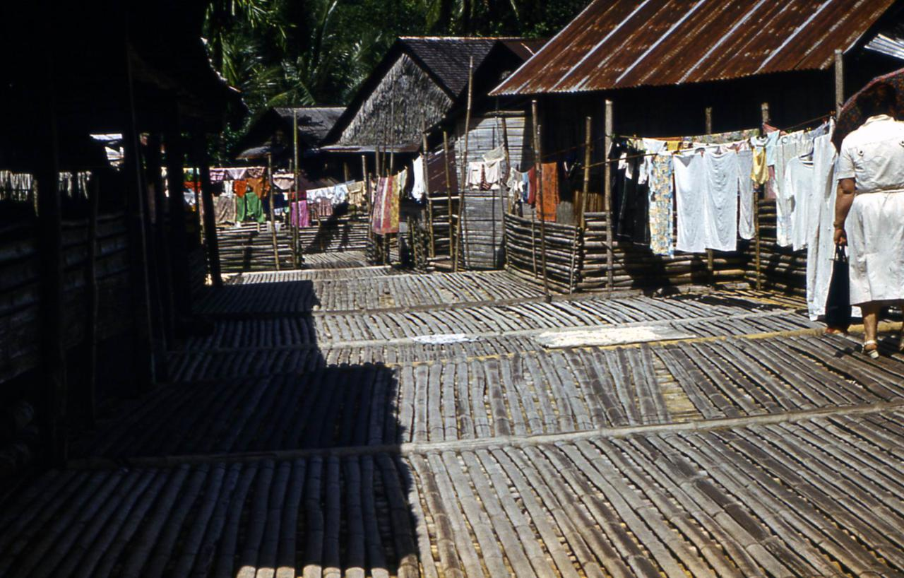 Local village